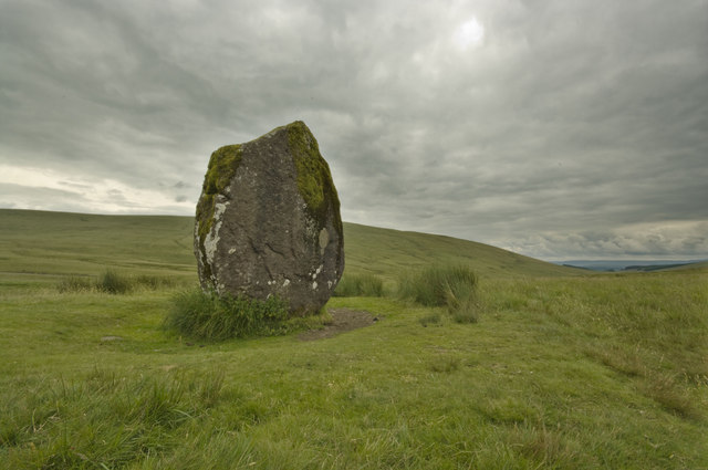 Maen Llia Standing Stone Large Standing Stone Between Fan Nedd and Fan Dringarth